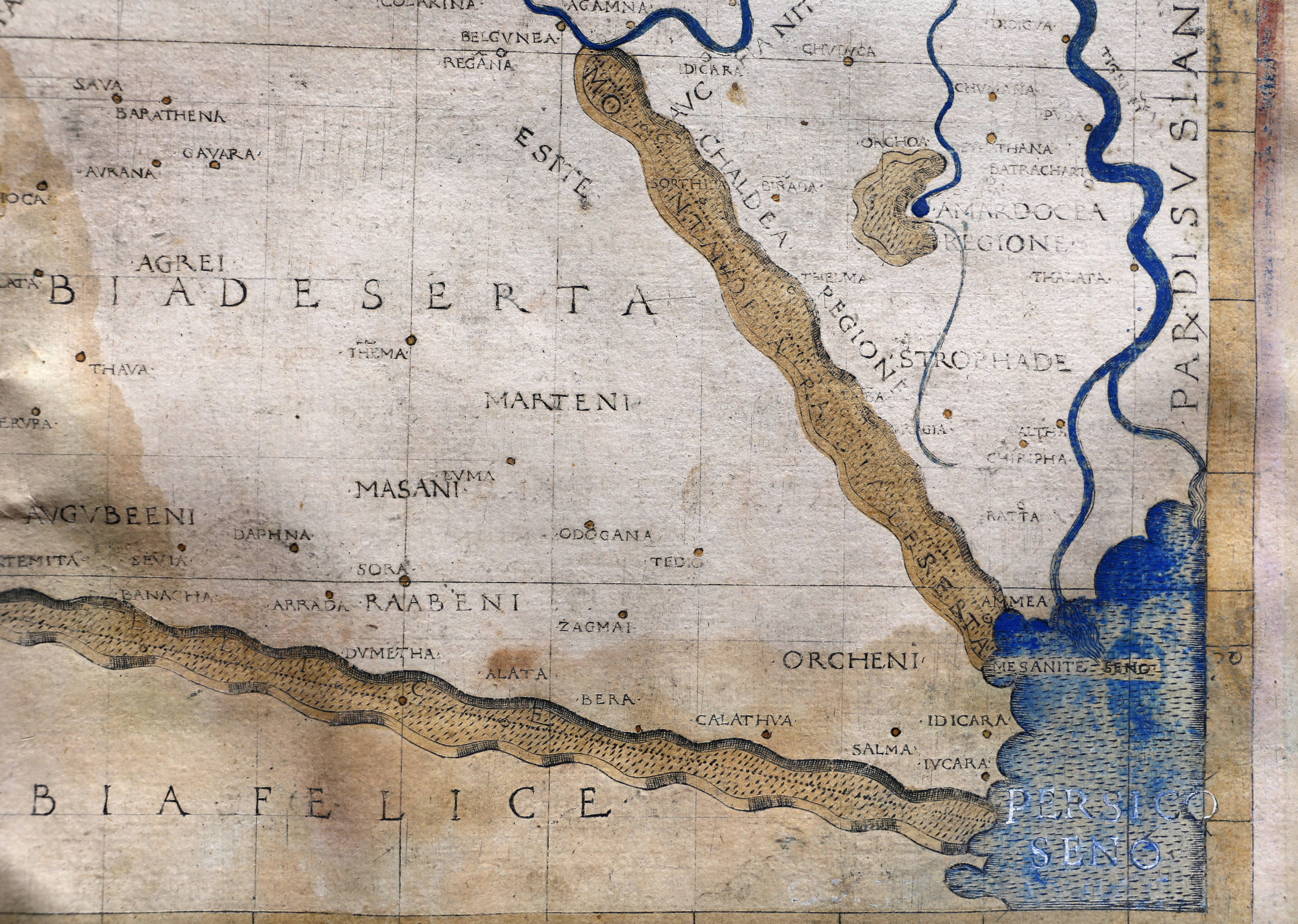 Geographia by Francesco Berlinghieri (Crusca)